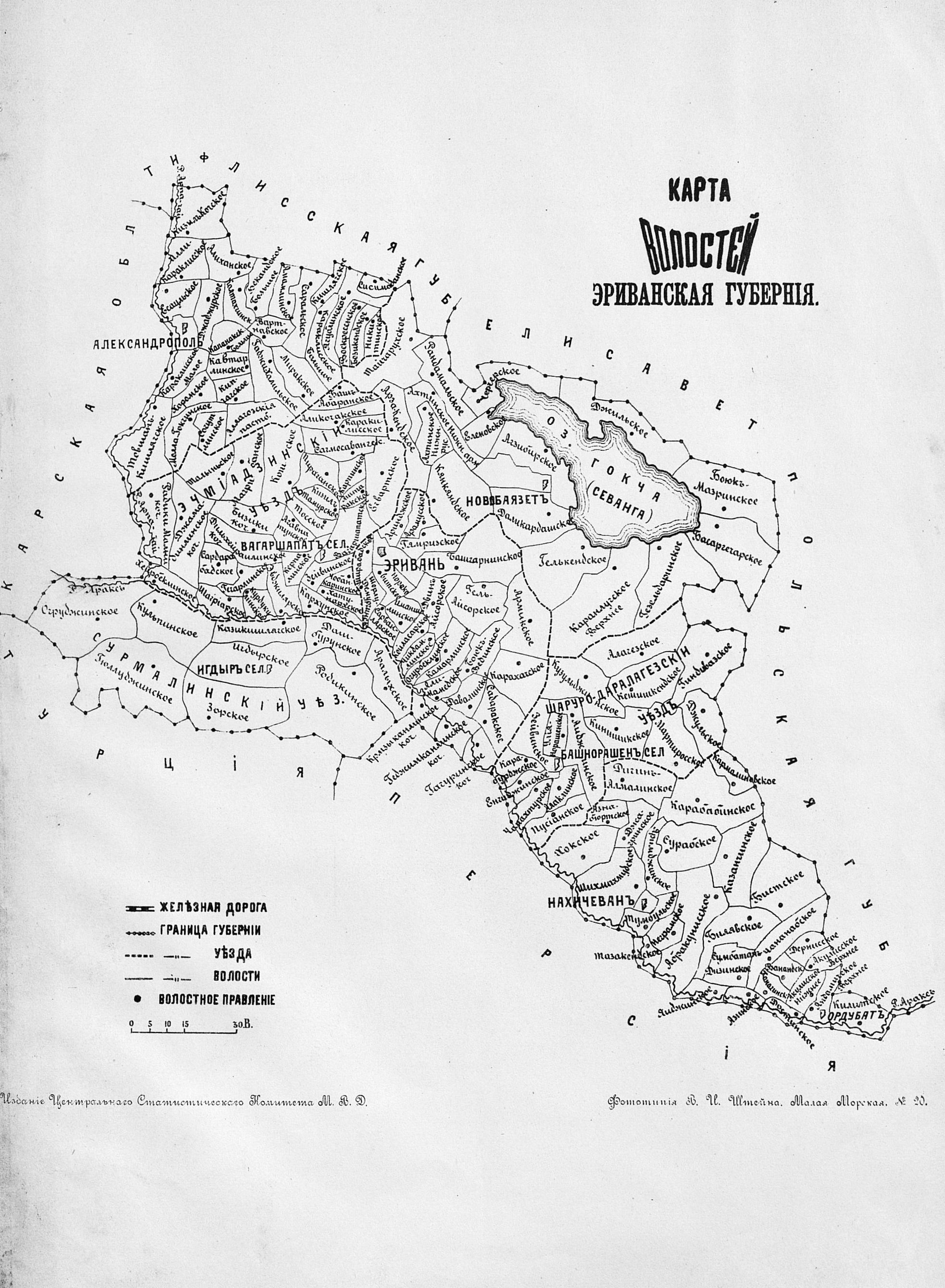 Map of Erivan Governorate townships-1890